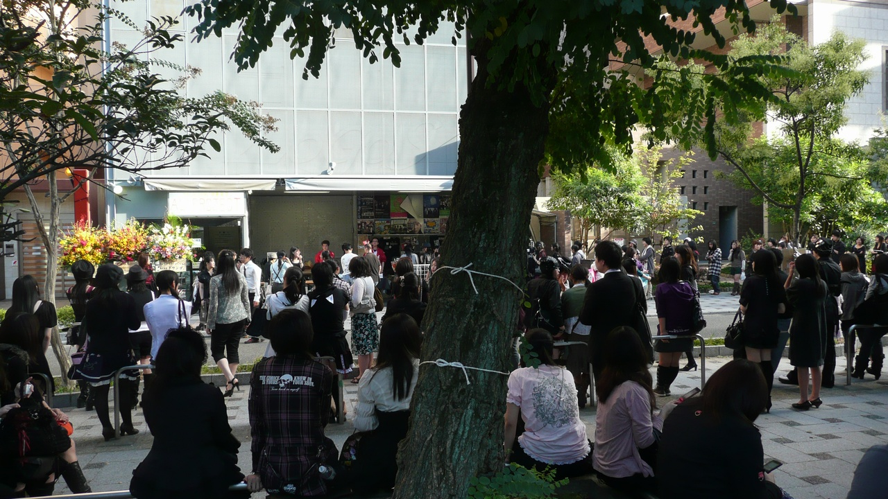 ALI PROJECT Live Tour 2008 (Fukuoka, Japan)